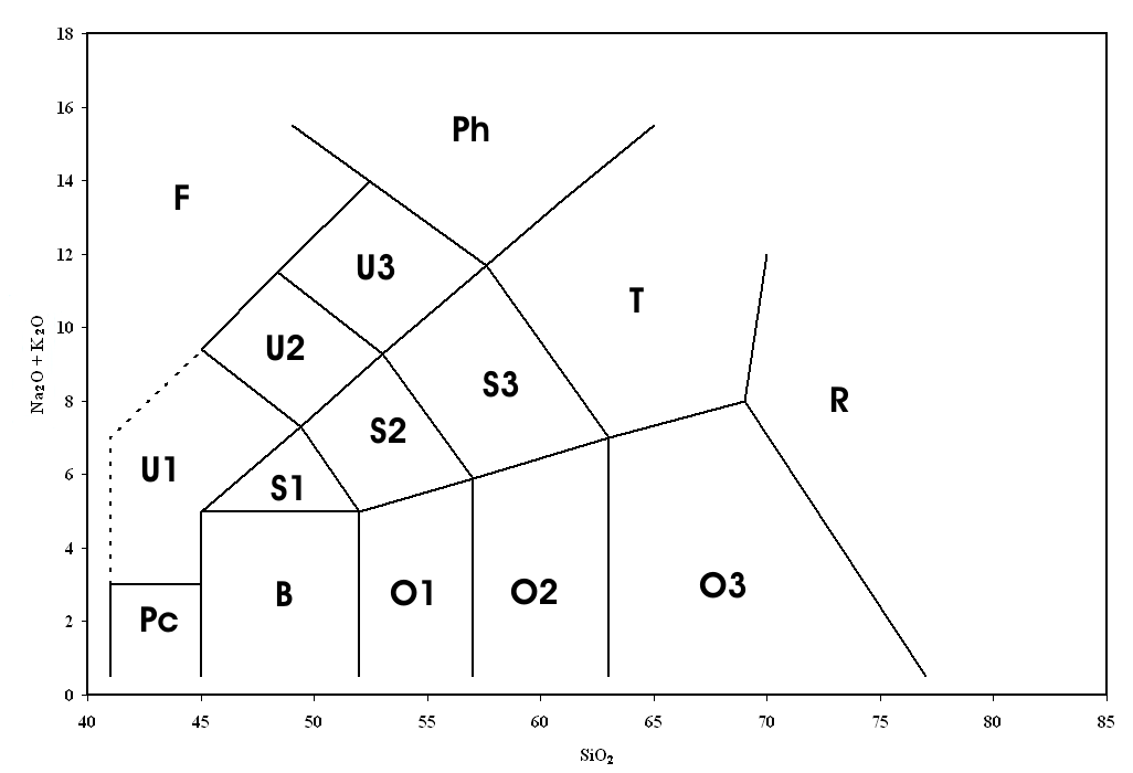 New version of TAS Diagram